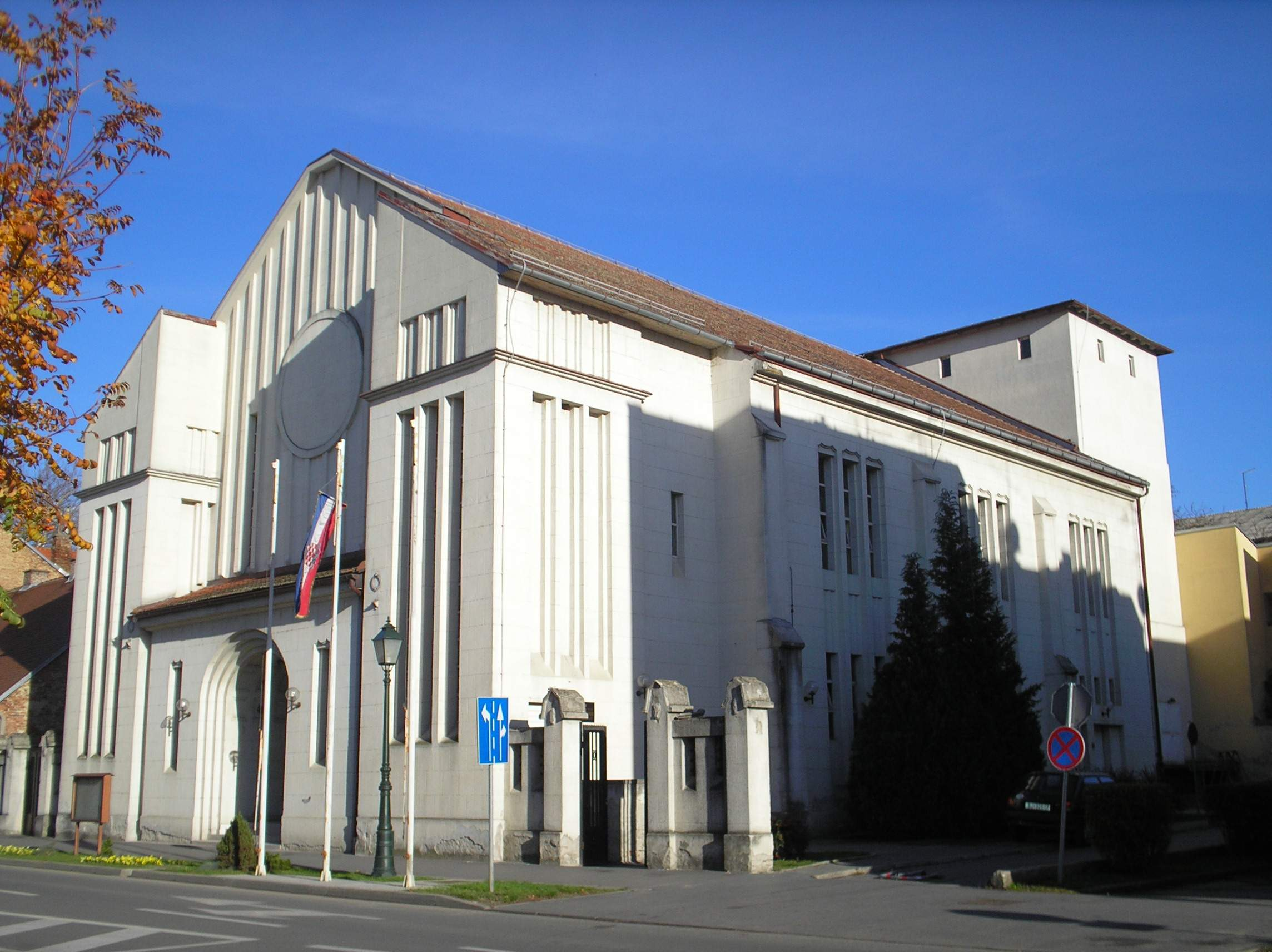 Old Jewish synagogue, 1913. Bjelovar, Croatia